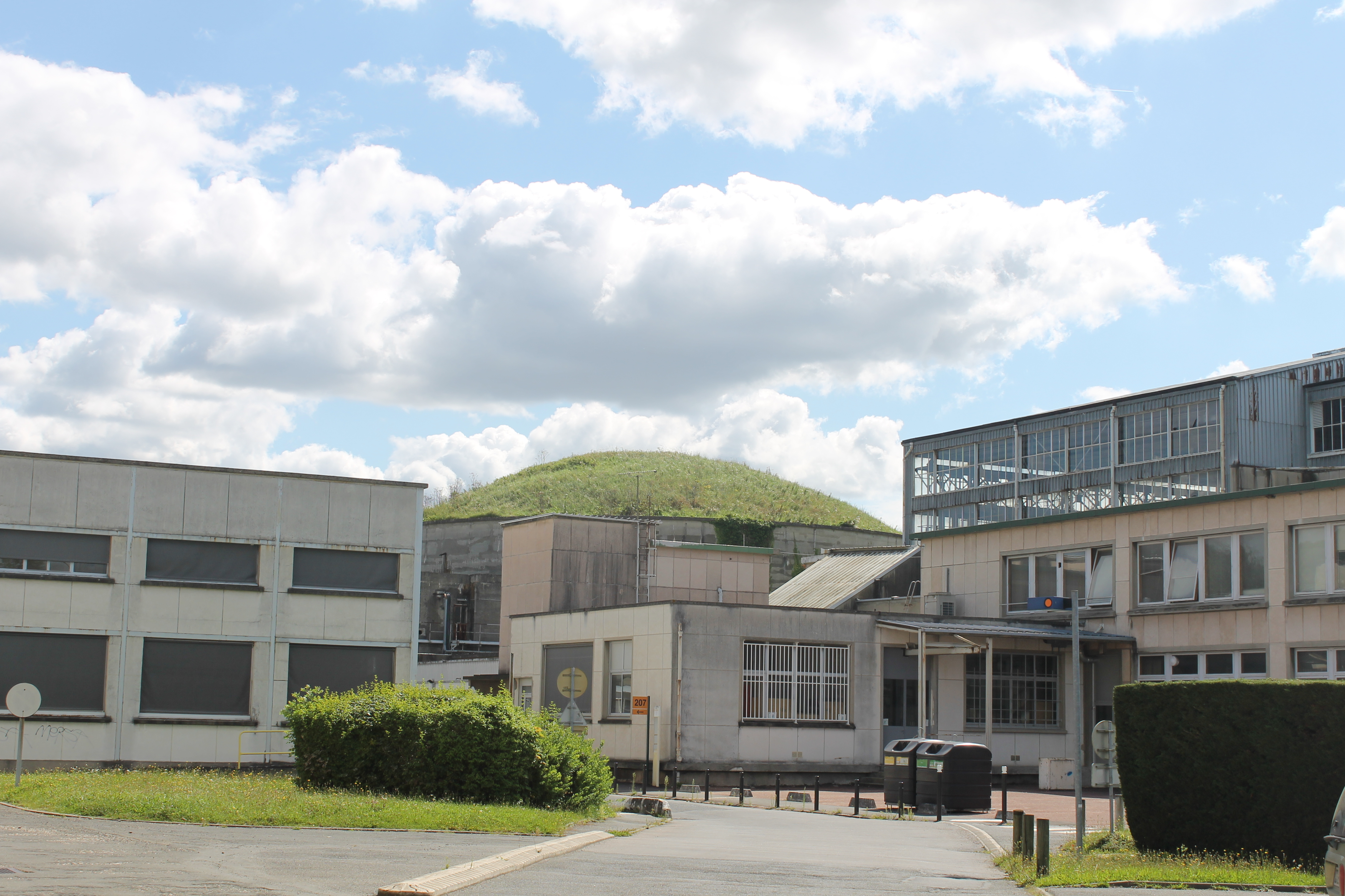 The buildings of the Particle accelerator of the University of Paris-Sud (Paris-Saclay, France).